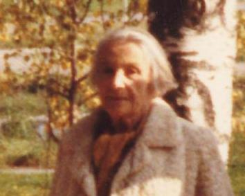 Nathalie Sarraute in a park, 1983